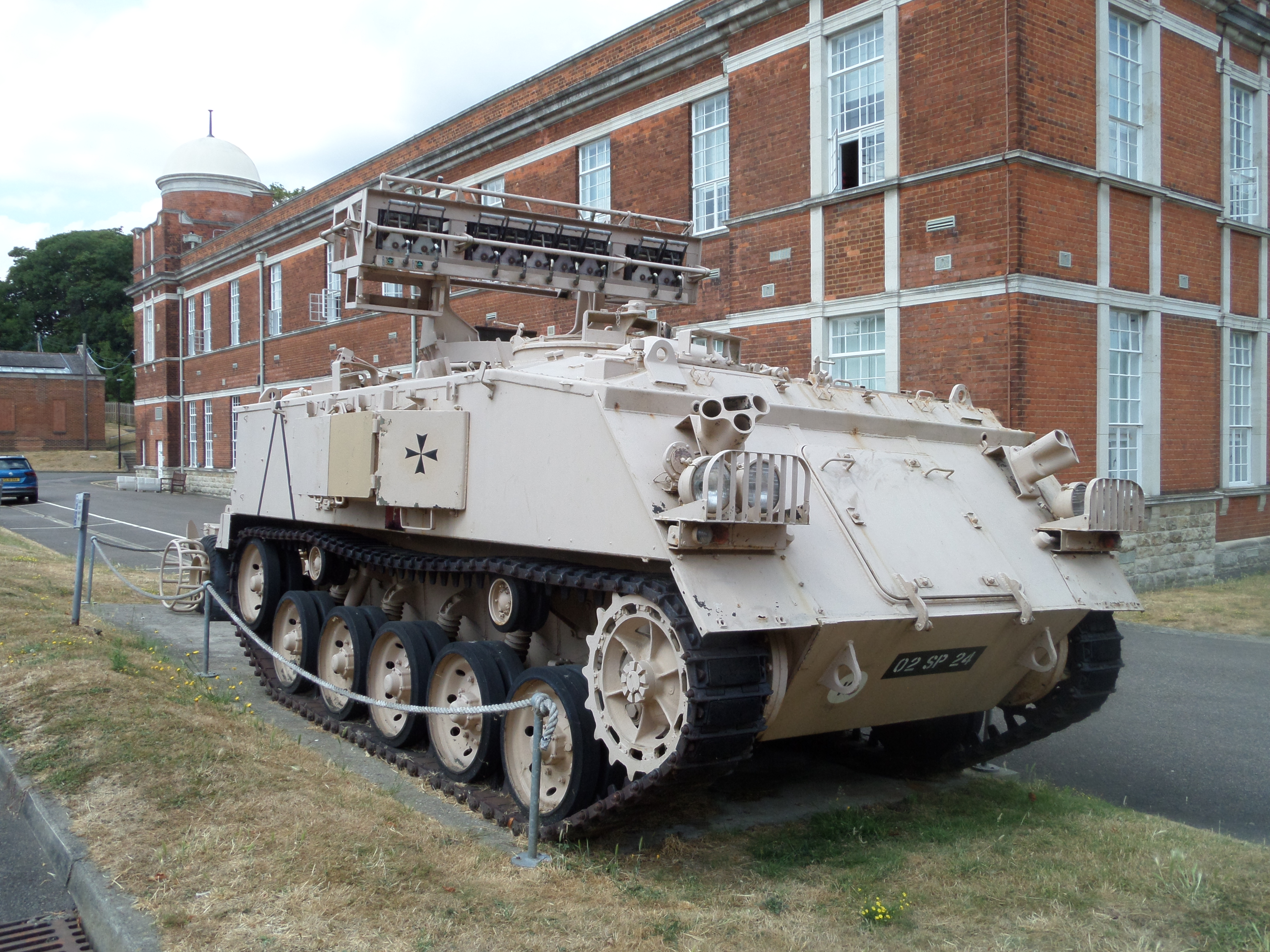 An Armoured Personnel Carrier (APC) configured as a mine layer. Entered service 1962. On the roof is a Ranger anti-personnel mine laying system that can throw 1296 mines in just six minutes. Towed at the back is a Barmine layer - designed to disable tanks - it could lay 700 mines per hour. On display at Royal Engineers Museum, Kent.